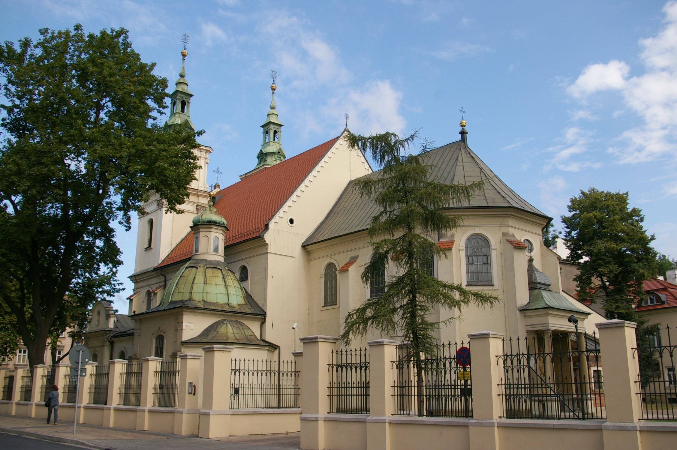 Saint Florian church in Kraków